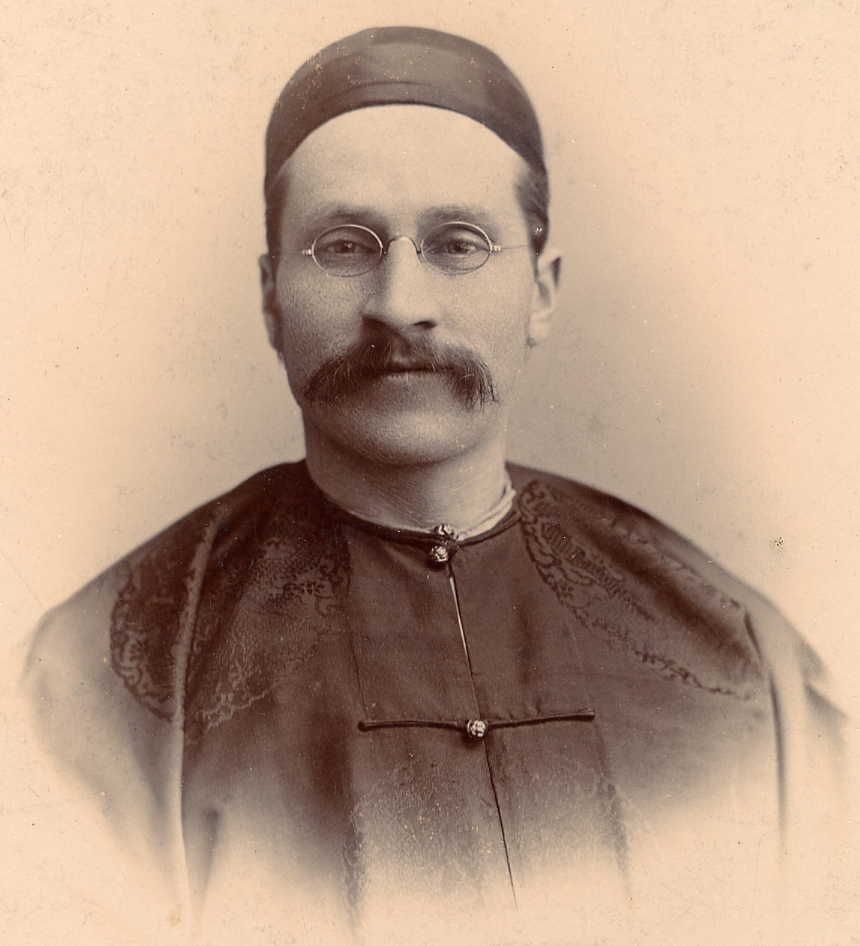 English missionary to China of late 19th century.